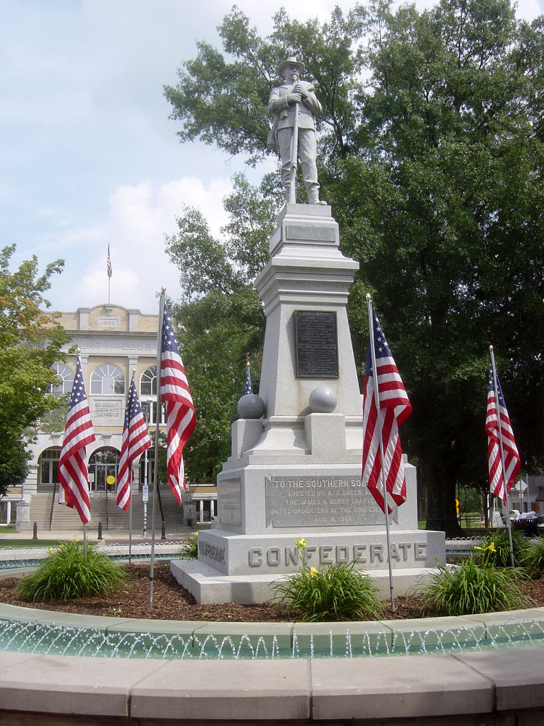 Monument, built 1908, in homage of the Confederacy, James H. Berry and the Southern Soldier, located in the town square of Bentonville, Arkansas; facing Sam Walton's original Walton's Five and Dime, now the Wal-Mart Visitor's Center.